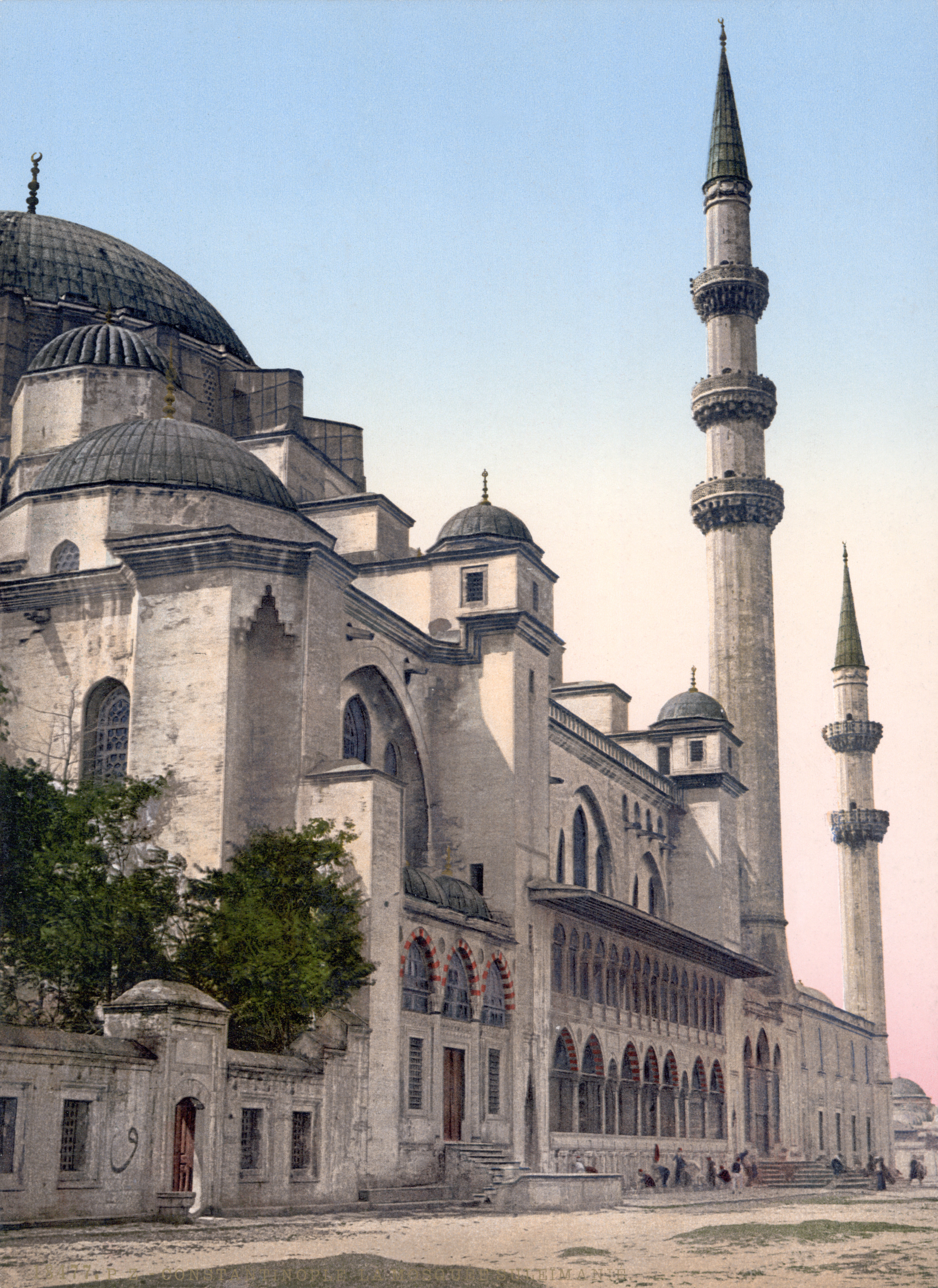 Süleymaniye Mosque, Istanbul, in 1890s